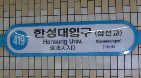 Hansung University Station